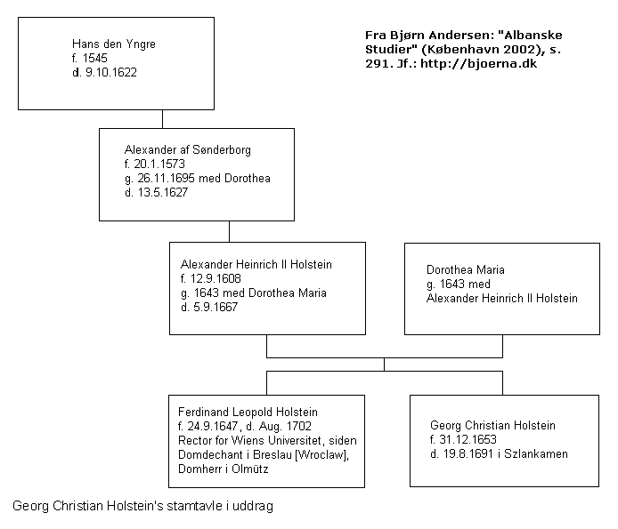 Georg Christian von Holstein and his family. Table produced by Bjørn Andersen, 2002